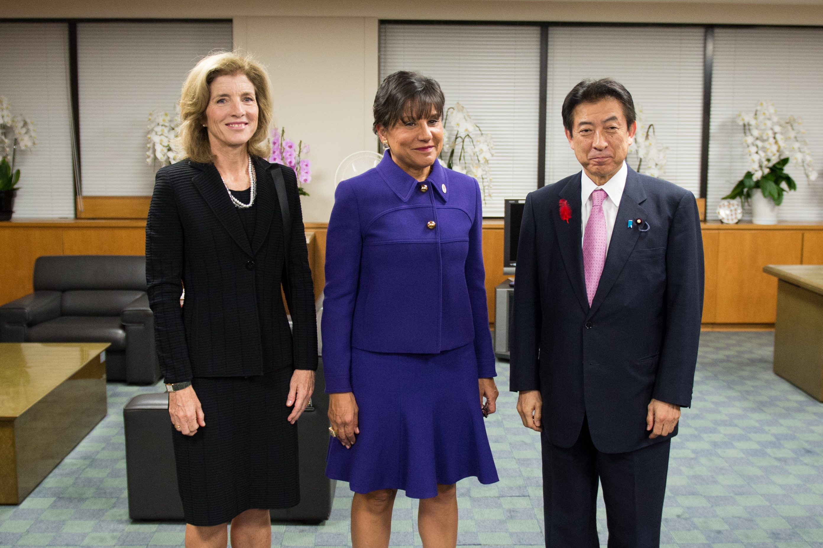 Penny Pritzker, Secretary of Commerce, and Caroline Kennedy, Ambassador to Japan, met Yasuhisa Shiozaki, Minister of Health, Labour and Welfare, at the Ministry of Health, Labour and Welfare in Chiyoda Ward, Tōkyō Metropolis on October 20, 2014.